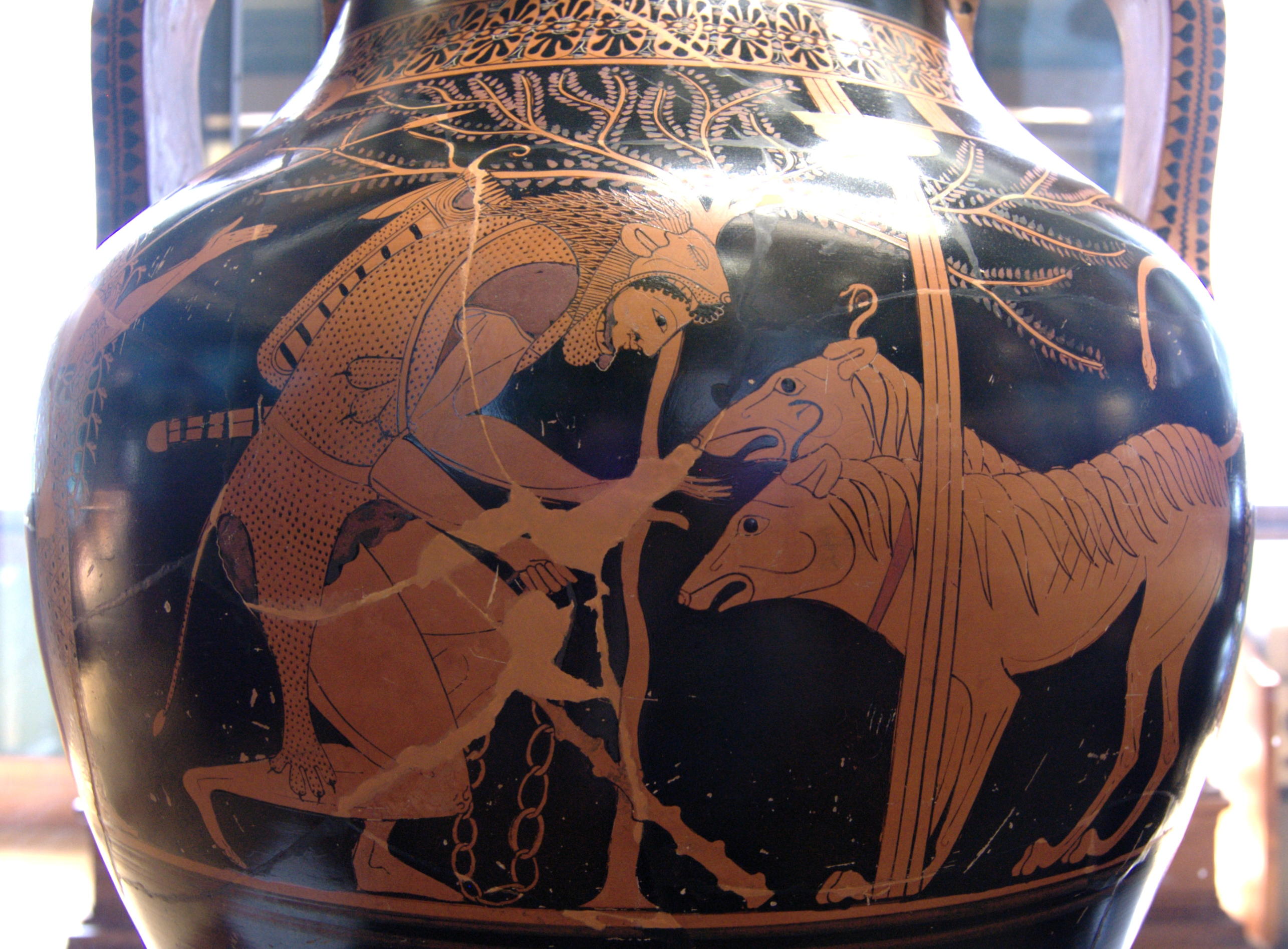 Heracles and Cerberus. Side A (red-figure) from an Attic bilingual amphora, 530–520 BC. From Italy (?).